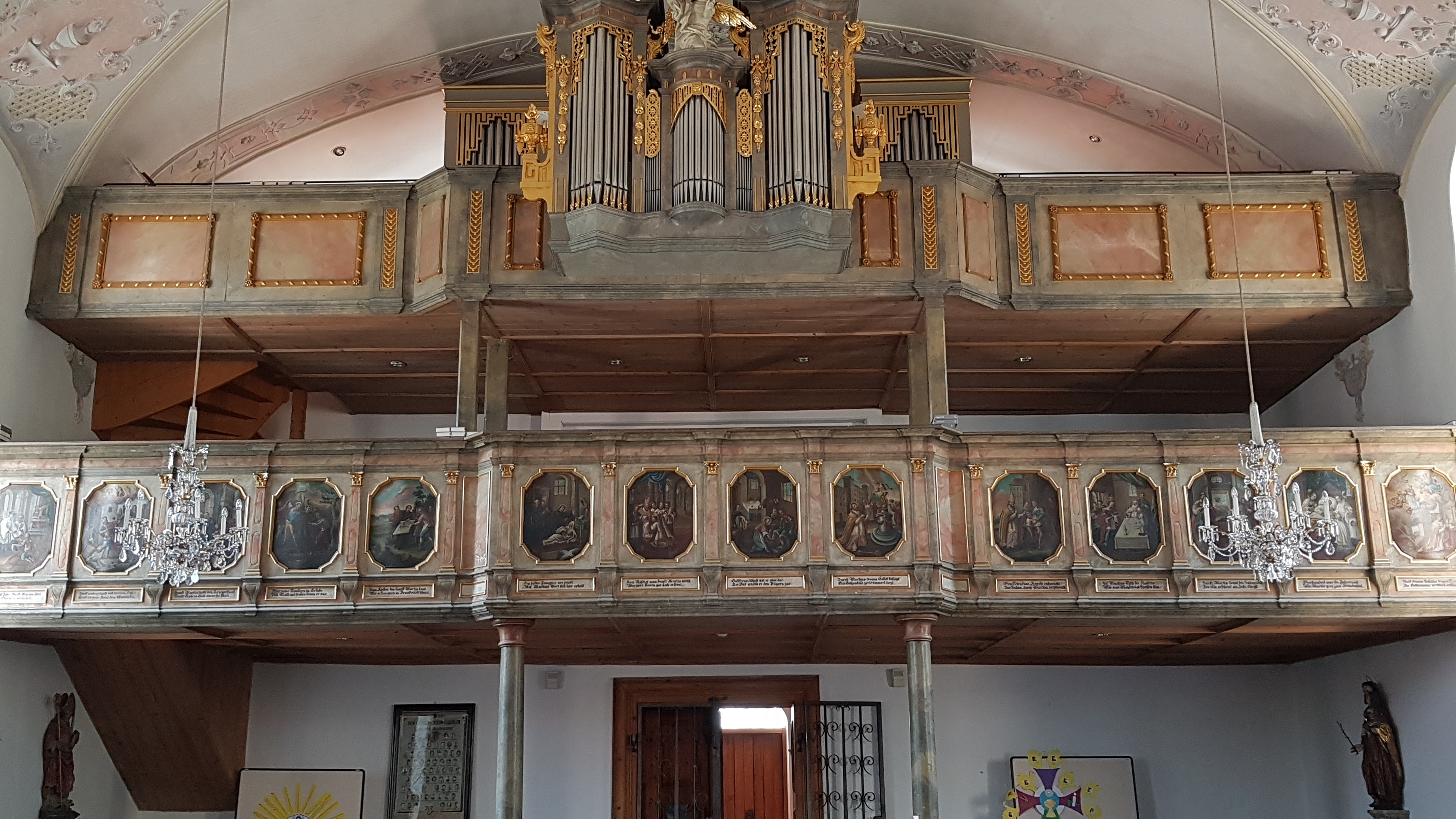 View towards west to the gallery with the organ